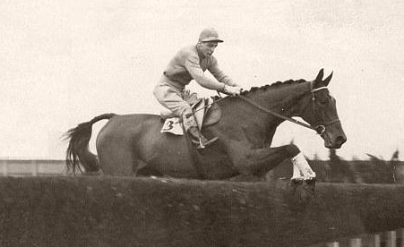 Golden Miller (1927–1957) was a Thoroughbred steeplechaser who won five Cheltenham Gold Cups and a Grand National.